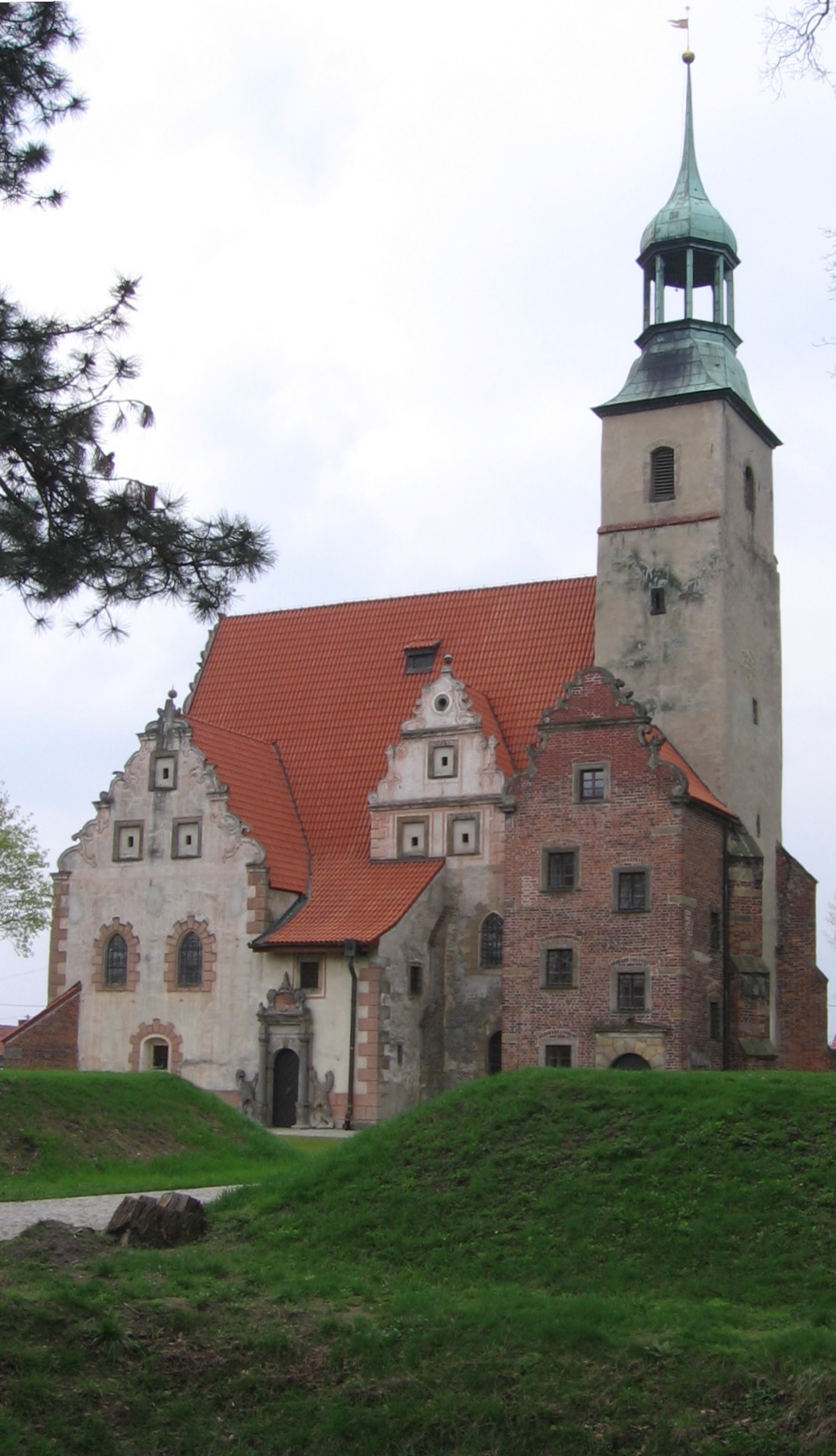 The Trinity Church of 14th century (rebuilt 1600-1608) in Żórawina near Wrocław, Lower Silesian Voivodeship, Poland.